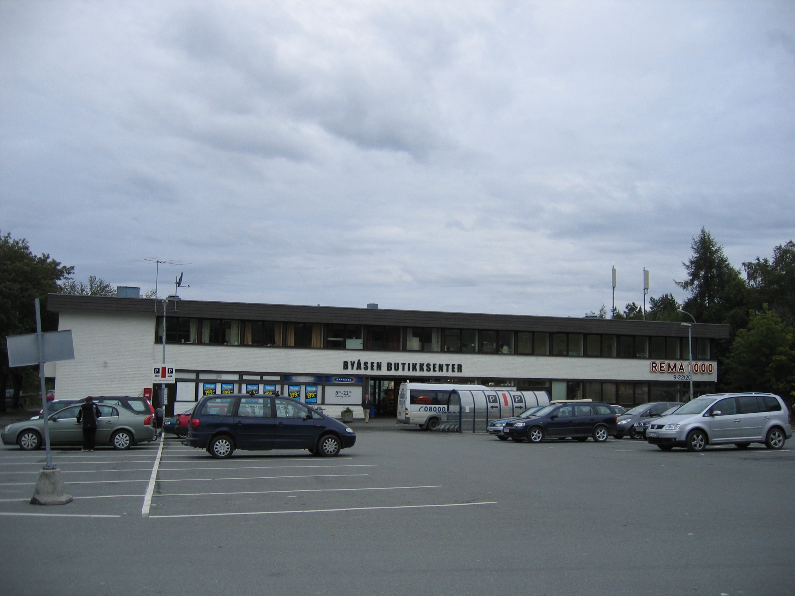 The Byåsen shoppingsenter (one of the oldest in Norway) located near Sverresborg in Byåsen, Trondheim.